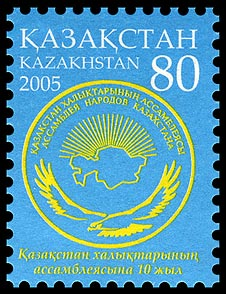 Stamp of Kazakhstan